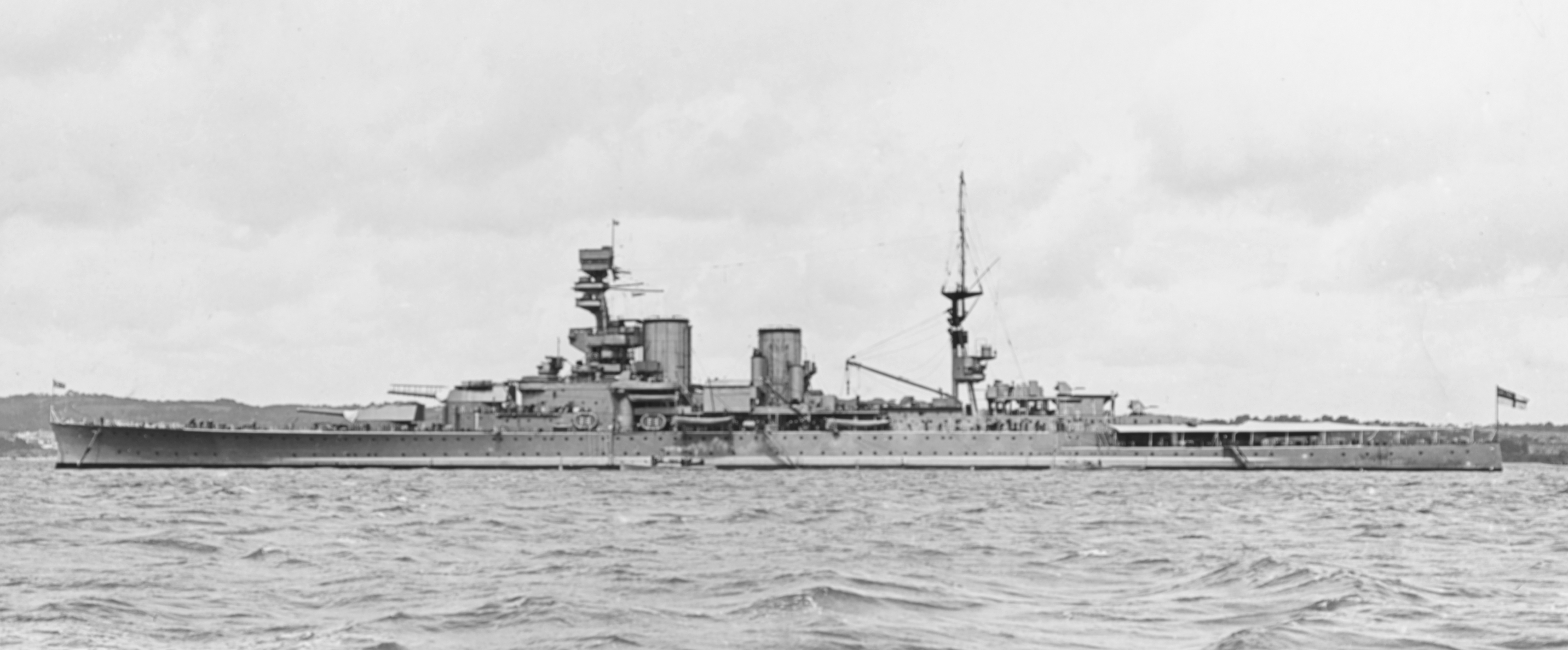 The Royal Navy battlecruiser HMS Renown photographed circa the later 1920s, following her 1923-1926 refit.